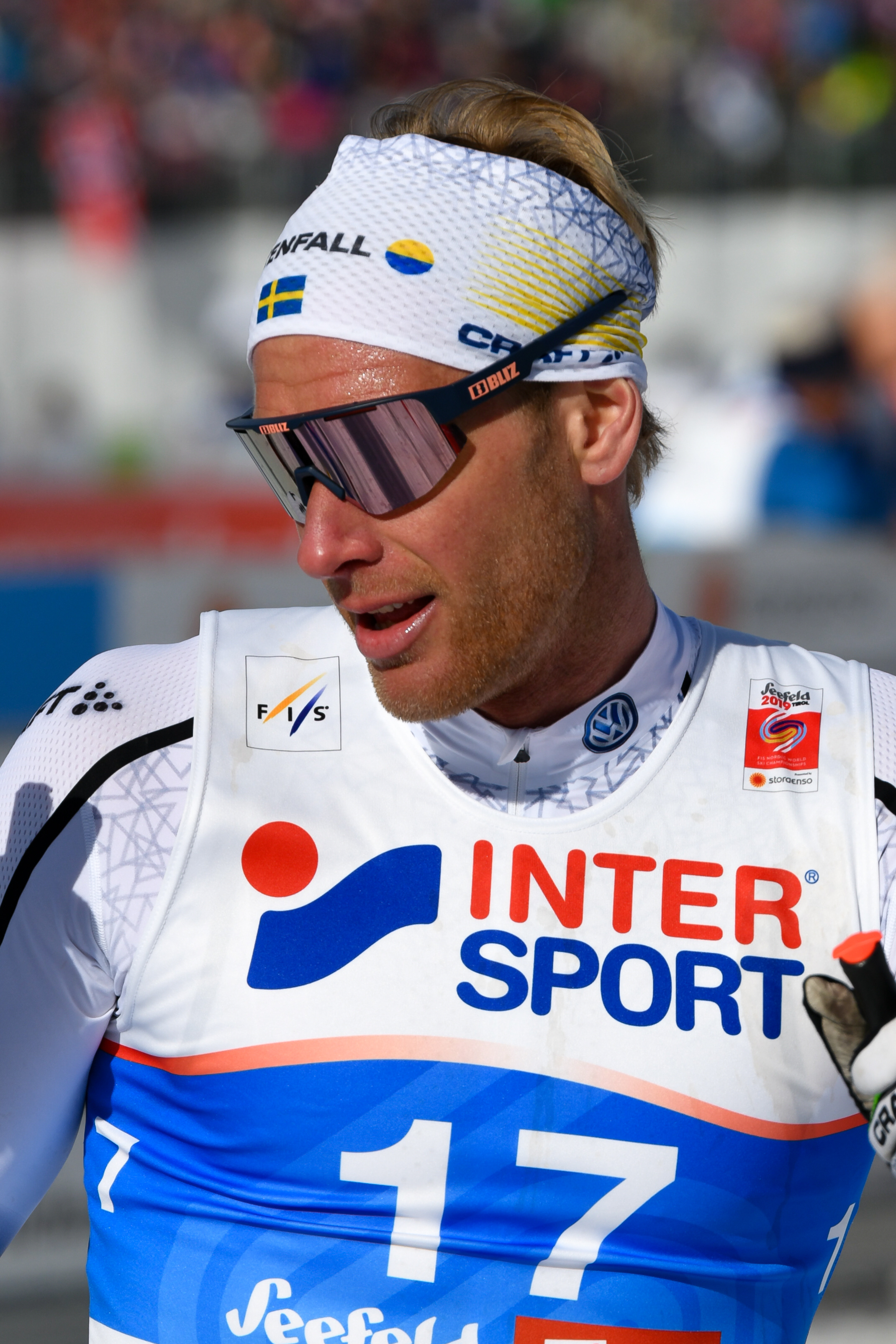 FIS Nordic Wolrd Ski Championships Seefeld 2019 - Men Cross Country 50km Mass Start Free. Picture shows Daniel Rickardsson (SWE).